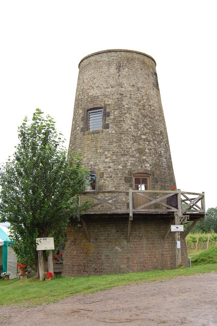 Photograph of Nutbourne windmill